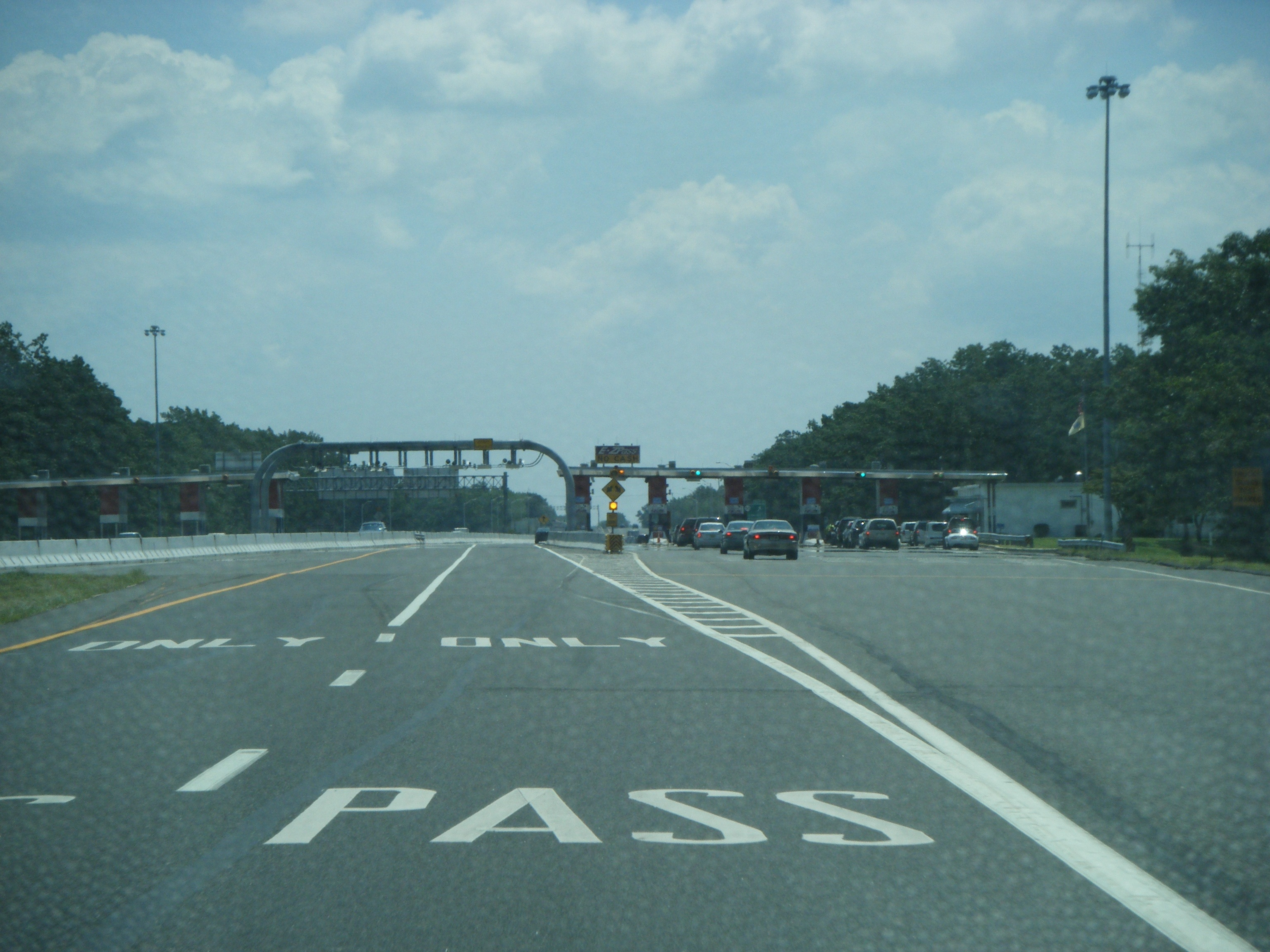 Eastbound Atlantic City Expressway at the Egg Harbor toll plaza in Hamilton Township, New Jersey.